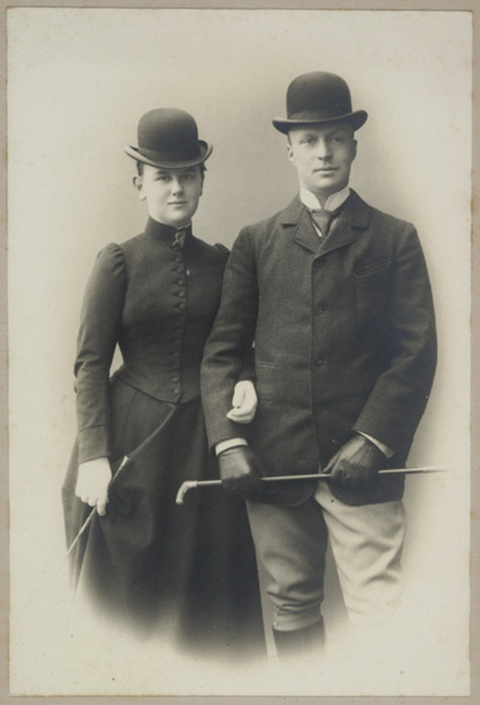 Engagement Queen Wilhelmina of The Netherlands with Duke Hendrik van Mecklenburg-Schwerin.